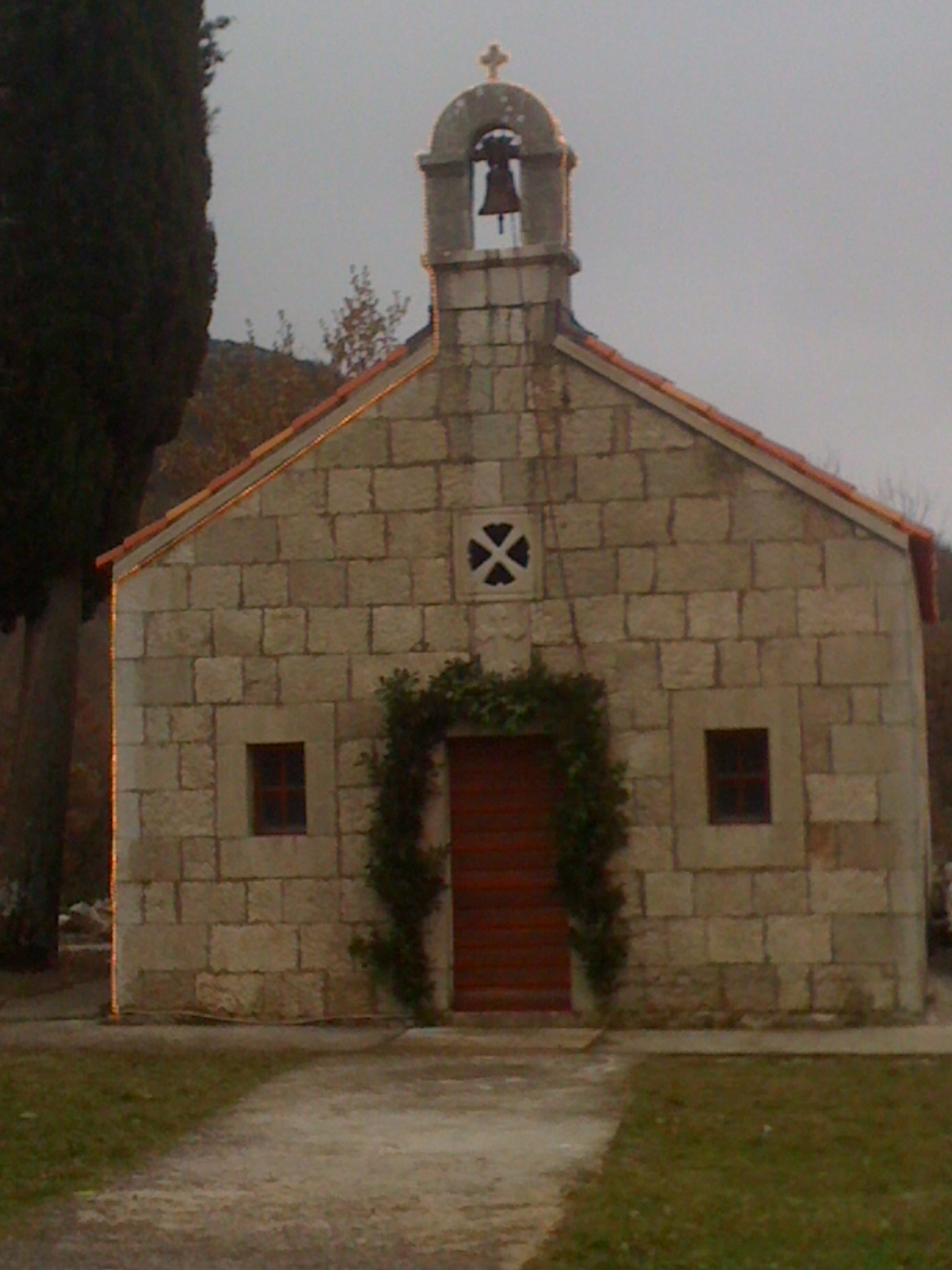 St. Thomas church in Kuna Konavoska